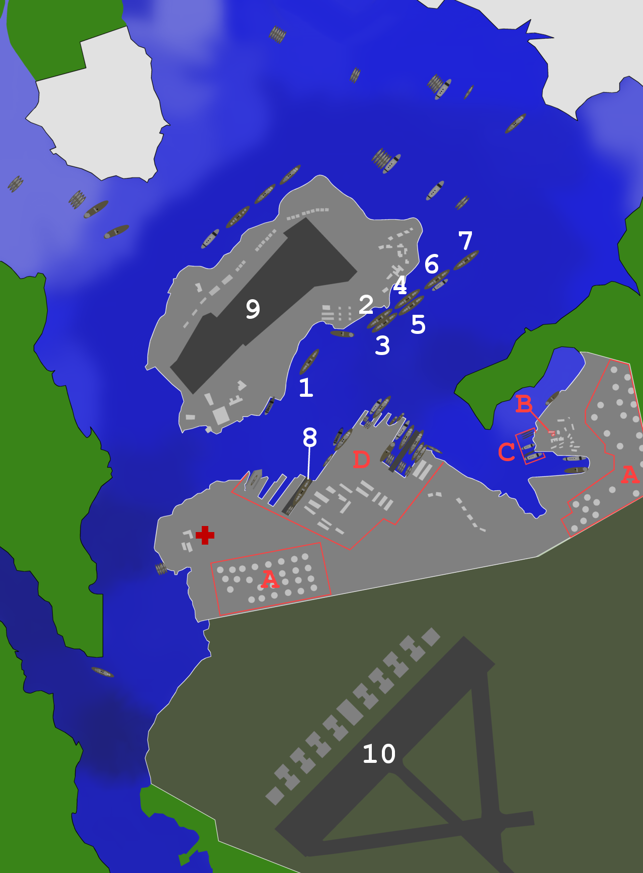 Map of ships and port facilities in Pearl Harbor during the attack. This text based legend is preferred: 49 ft City Army base Navy base Or alternately, can be used with this image: (Image:Phdepth.png) 1:USS California 2:USS Maryland 3:USS Oklahoma 4:USS Tennessee 5:USS West Virginia 6:USS Arizona 7:USS Nevada 8:USS Pennsylvania 9:Ford Island NAS 10:Hickam field A:Oil storage tanks B:CINCPAC C:Submarine base D:Naval yard